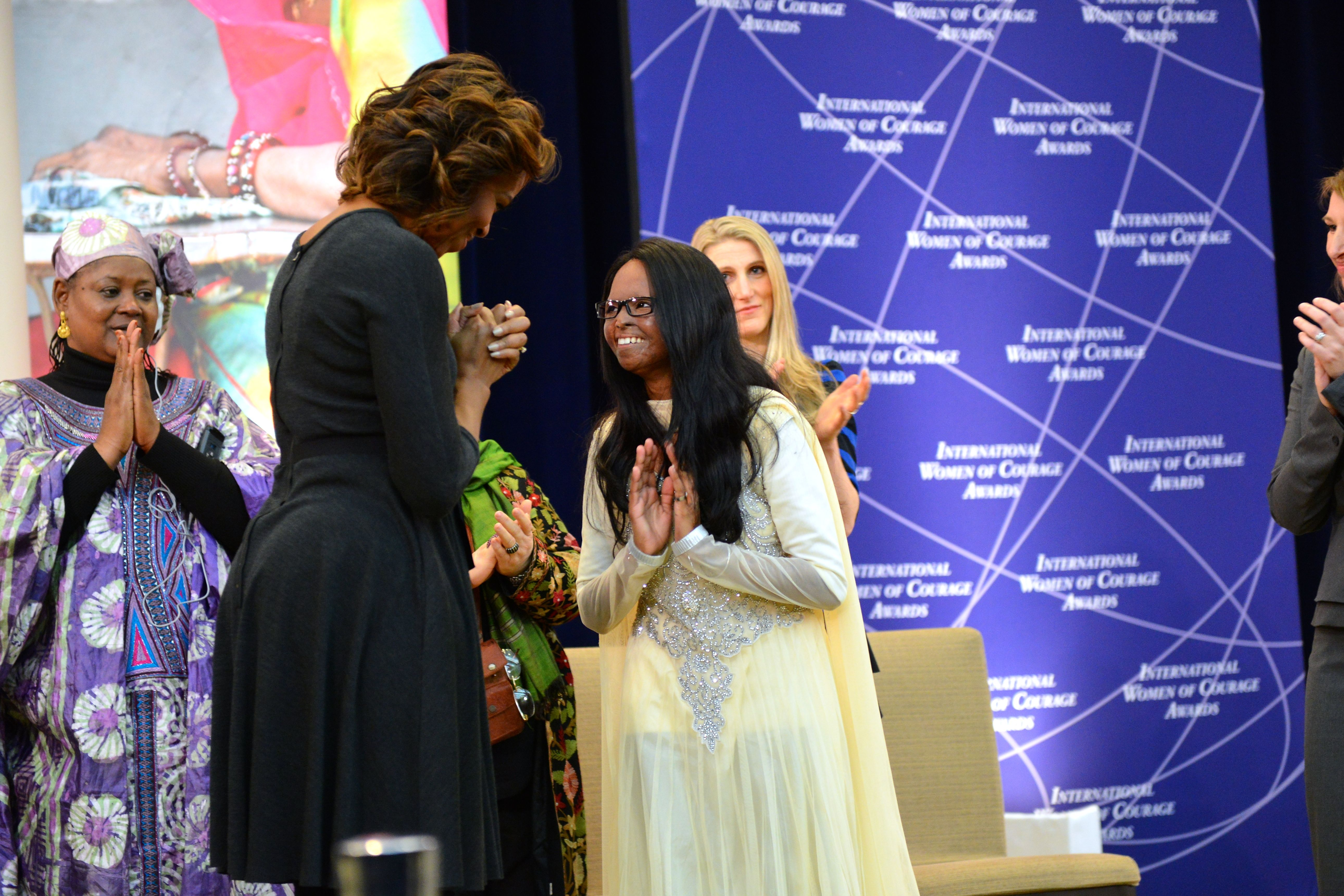 First Lady Michelle Obama honors 2014 International Women of Courage Awardee Laxmi, a Campaigner for Stop Acid Attacks in India, at the 2014 Secretary of State’s International Women of Courage Award Ceremony at the U.S. Department of State in Washington, D.C., on March 4, 2014. [State Department photo/ Public Domain]